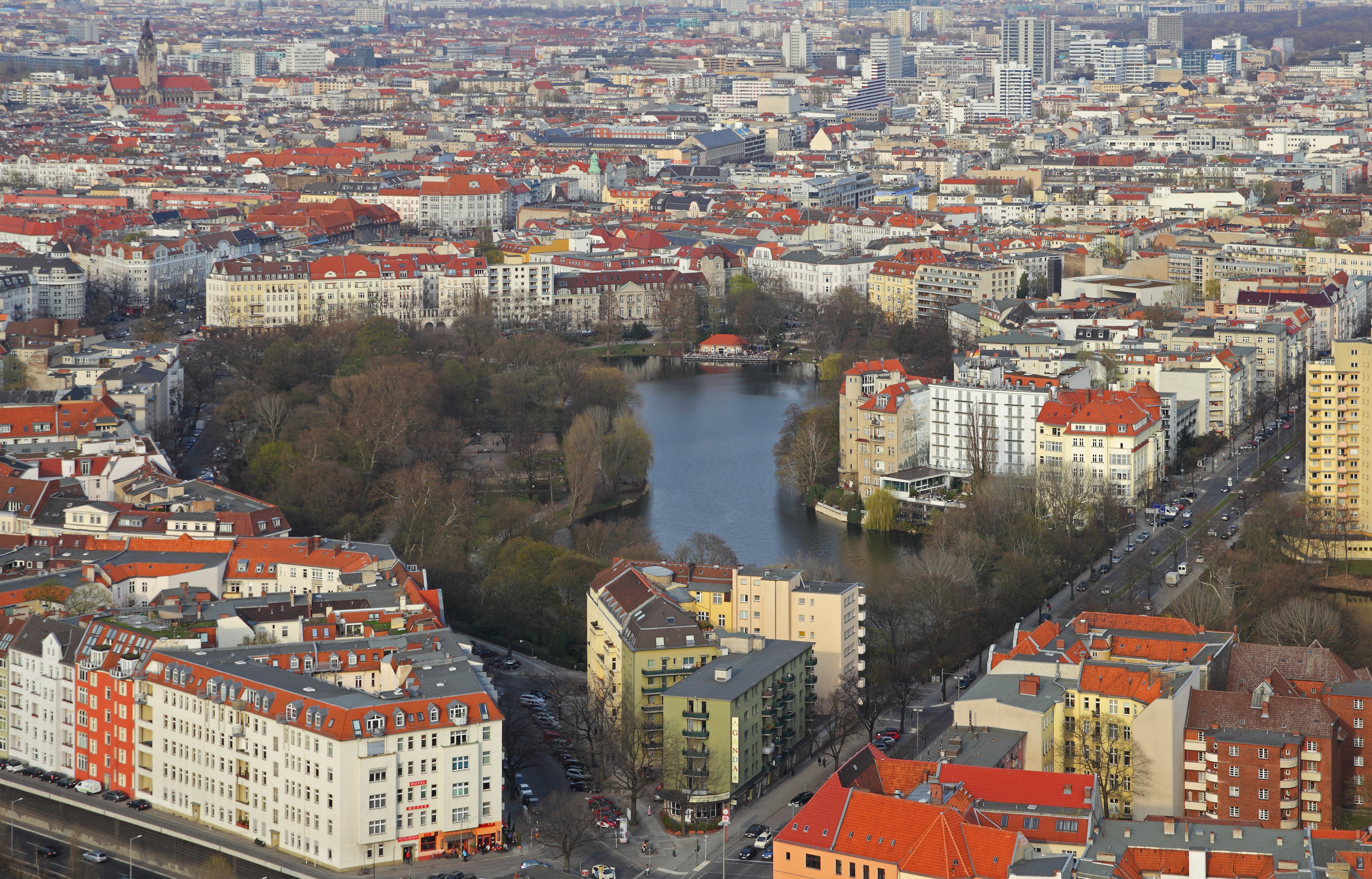 Berlin views from Radio Tower at the Trade Fair.